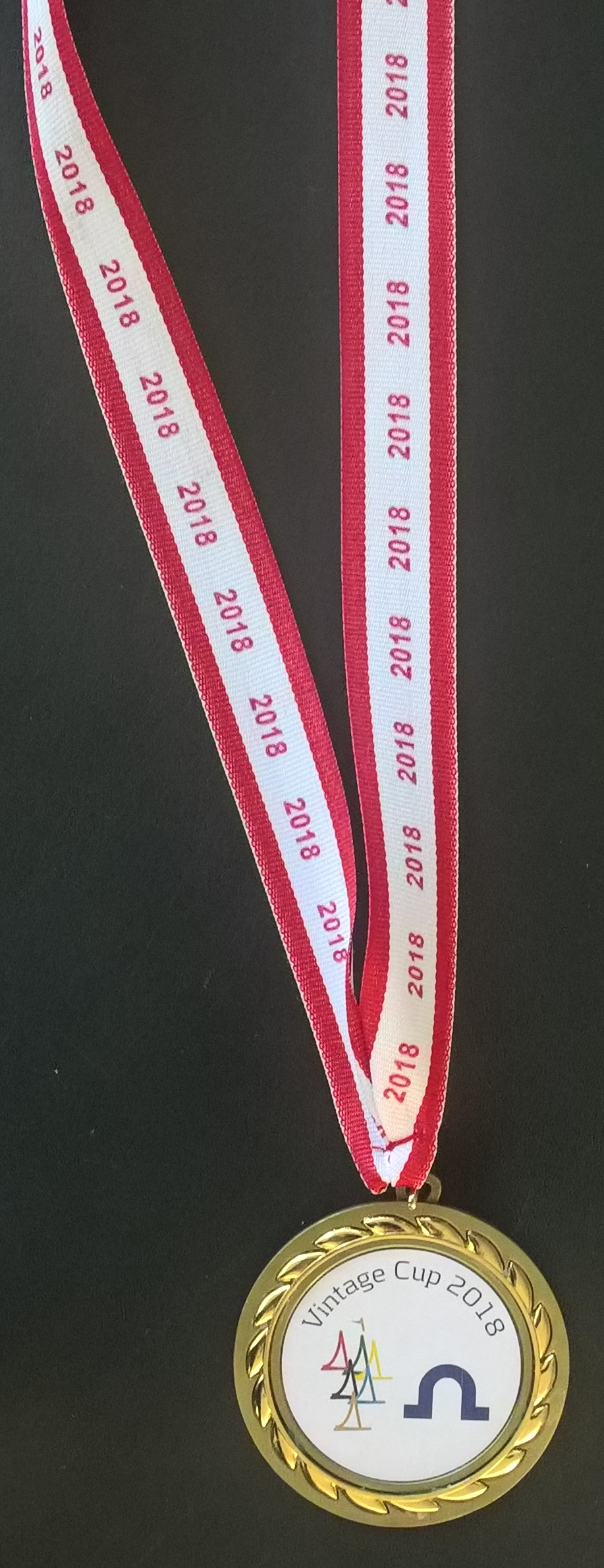 2018 Vintage Yachting Games Medal Soling 1st place